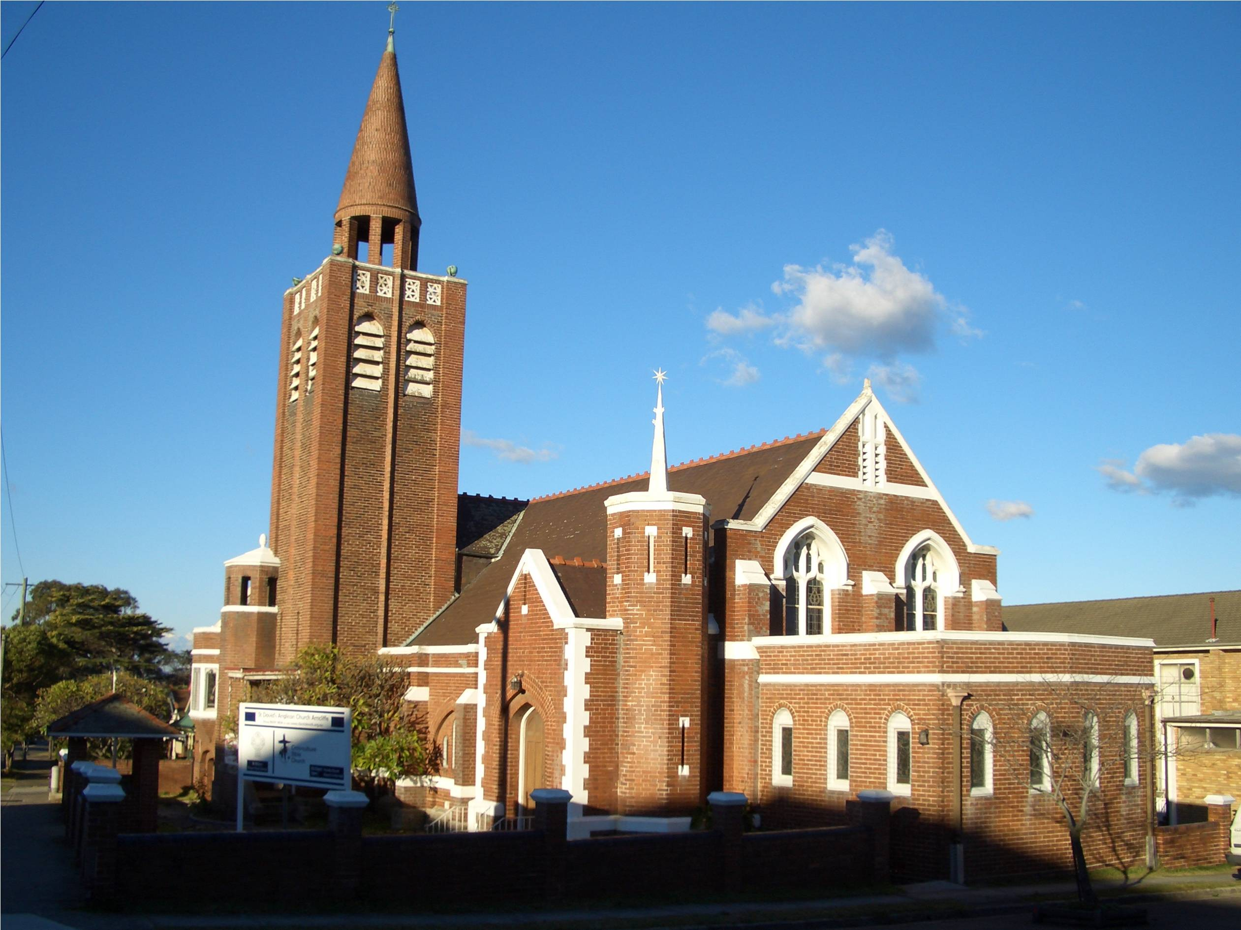 St David's Anglican Church, Arncliffe, Sydney J Bar 00:43, 31 August 2006 (UTC)